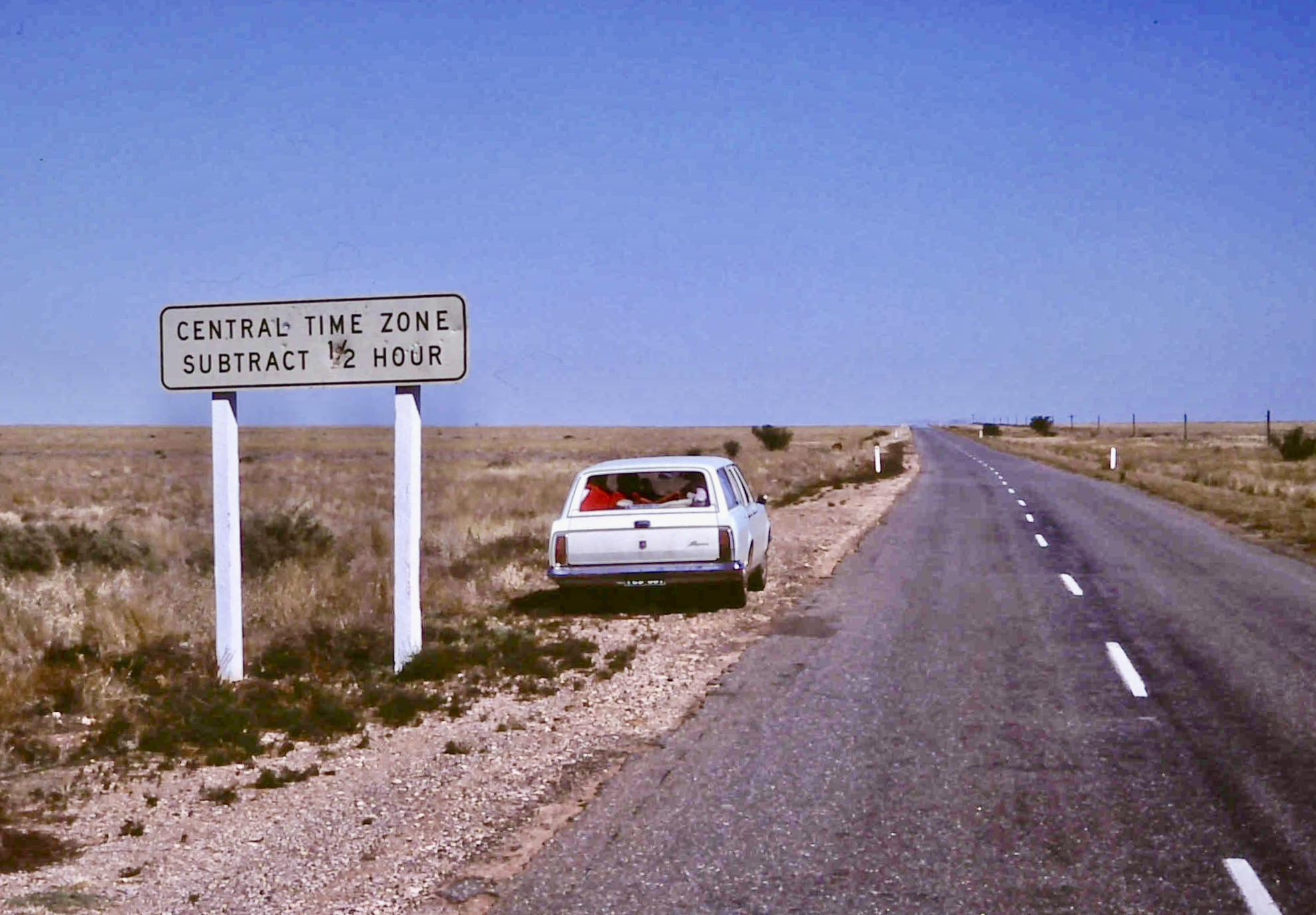 Sign at the boundary of Australia's Central Time Zone, near Broken Hill, NSW